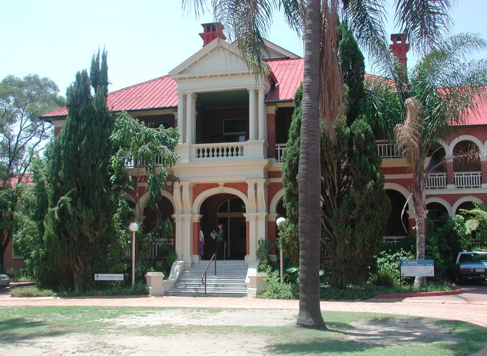 Raymont Lodge